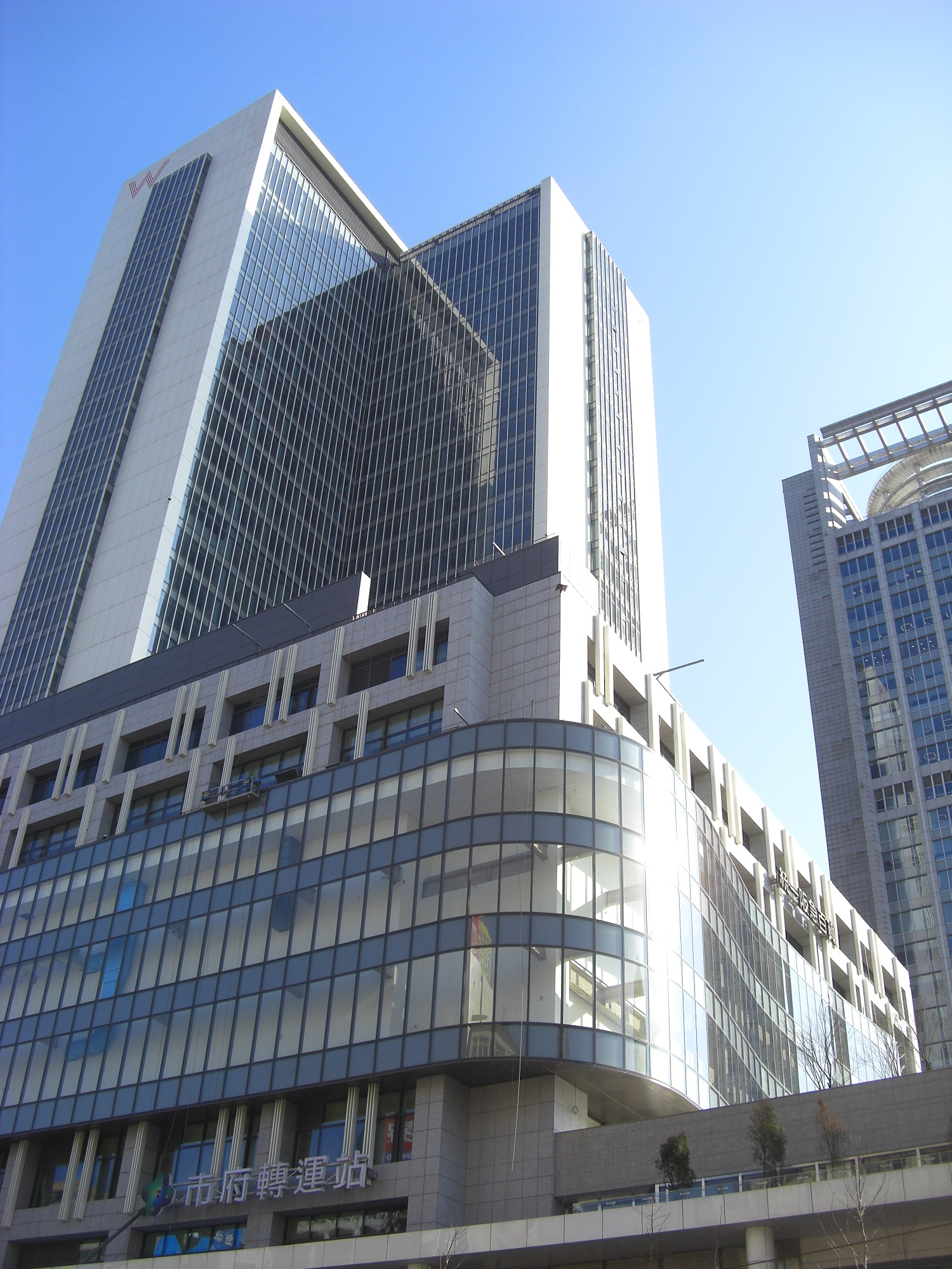 Taipei city hall bus station north side. The red W's represent W Hotel.